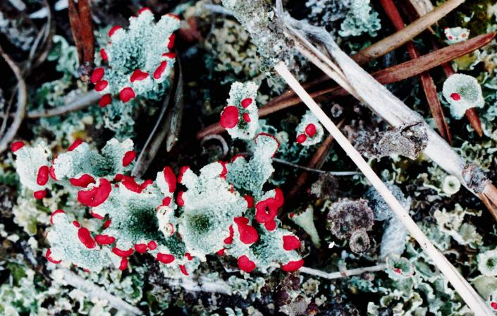 Cladonia pleurota (Flörke) Schaerer, 1850 Photographed in the field showing C. pleurota growing on an old piece of cotton cloth. These specimens were growing on a piece of cloth on the ground in a woodland in the vicinity of Deer Park Road S of the entrance to the Visitor Center at the Soldiers Delight Natural Environment Area, Owings Mills, Baltimore County, Maryland, USA (Lat. 39o24.439' N, Long. 76o50.085' W, Elevation 649 feet).